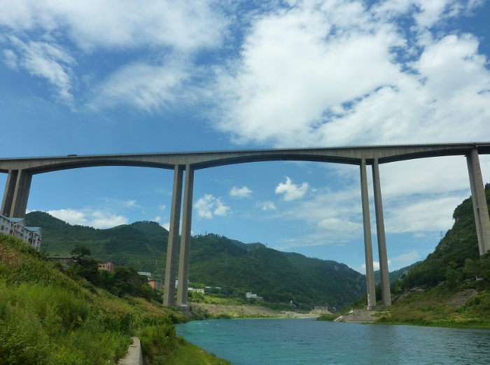 The Wujiang River Bridge in Guizhou province, China